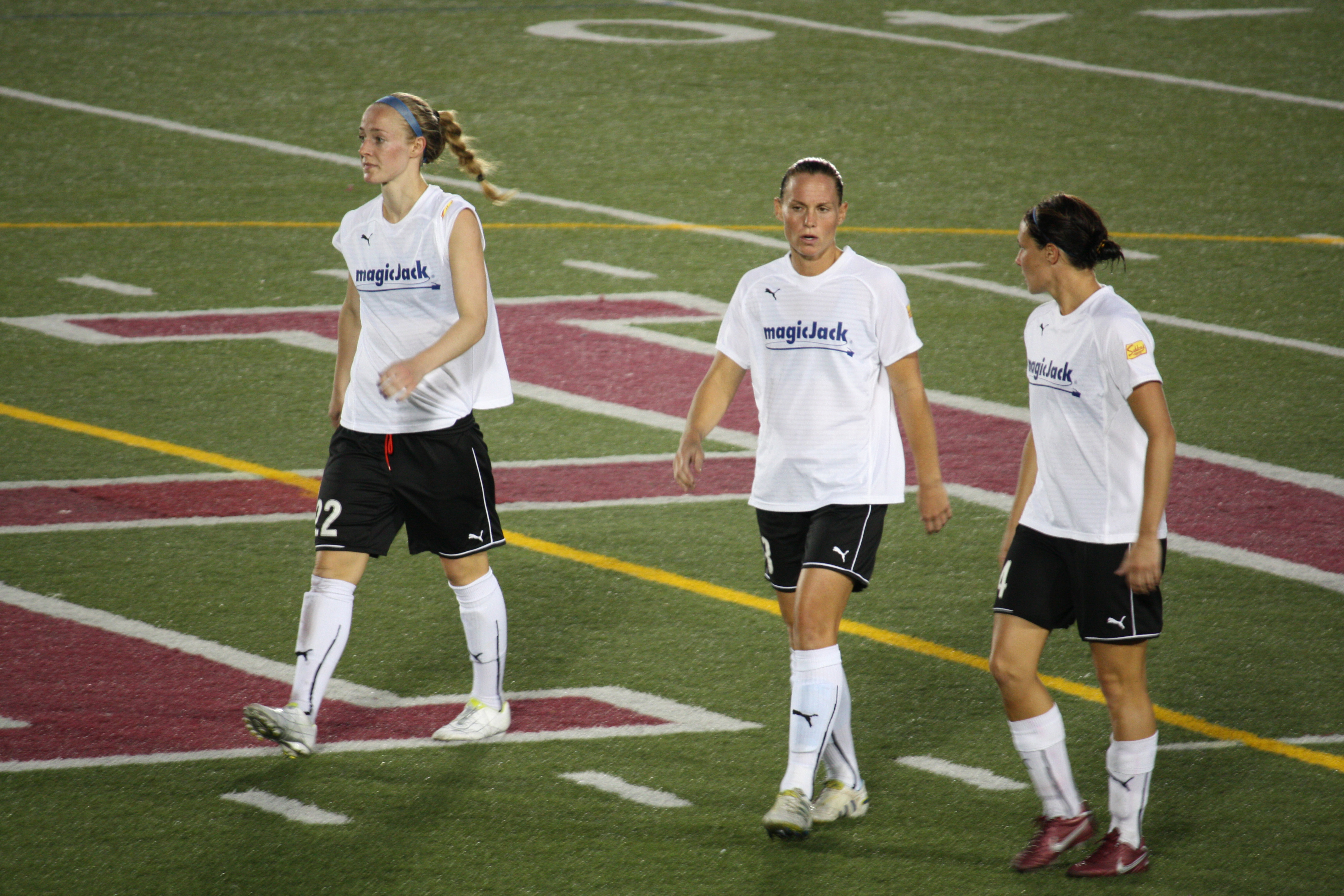 magicJack players strolling onto the field after halftime during magicJack's 2-0 win over the Boston Breakers, Saturday, August 6 at Harvard Stadium in Boston, Mass.